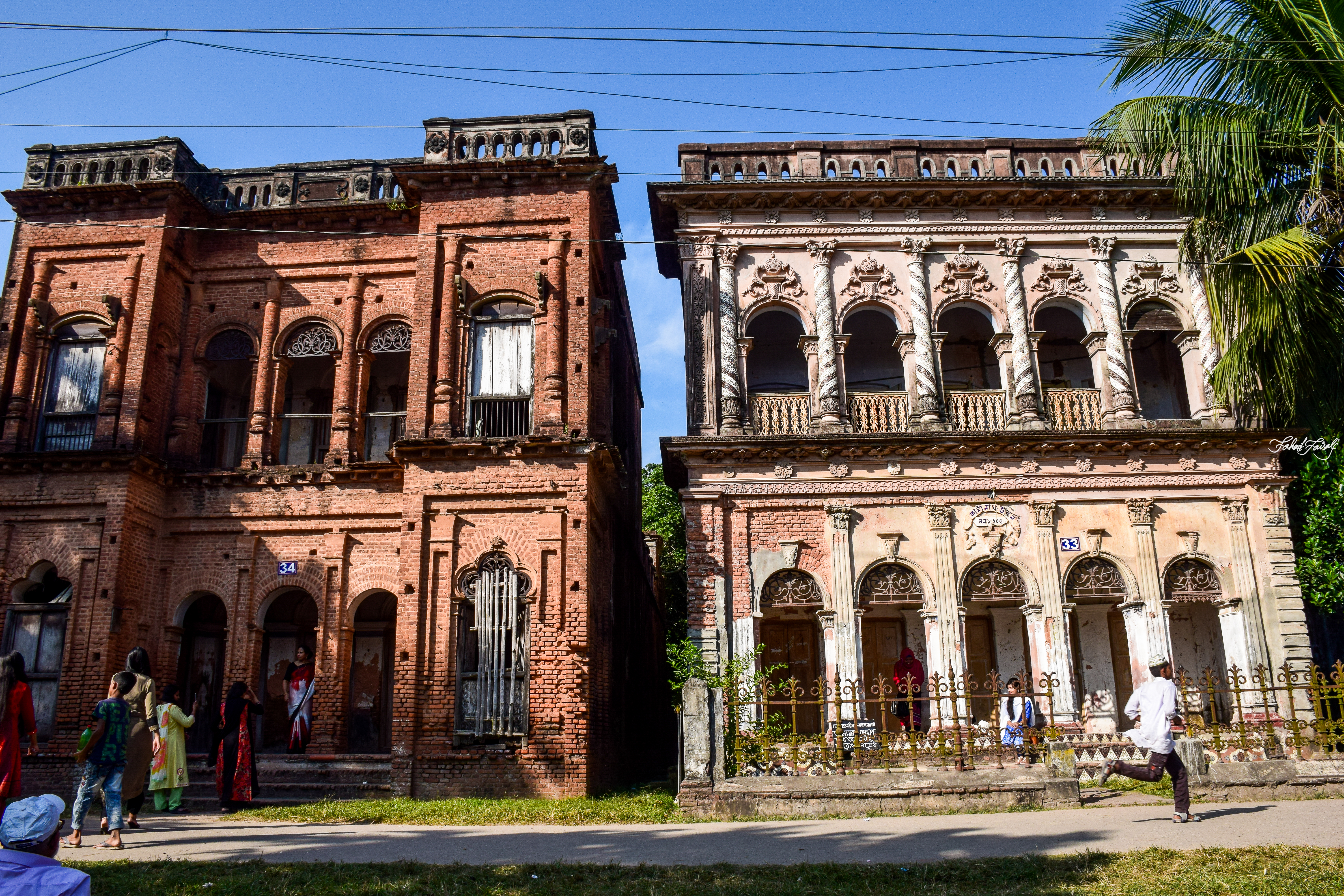 সোনারগাঁও পানাম নগর পুরাতন স্থাপনা